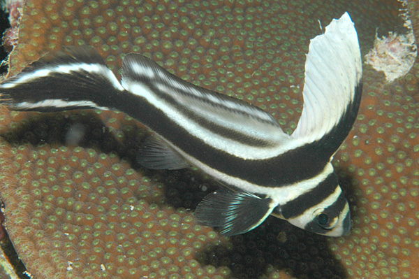 Juvenile Spotted Drumfish, Bonaire, Netherlands Antilles. Image taken by Clark Anderson/Aquaimages.